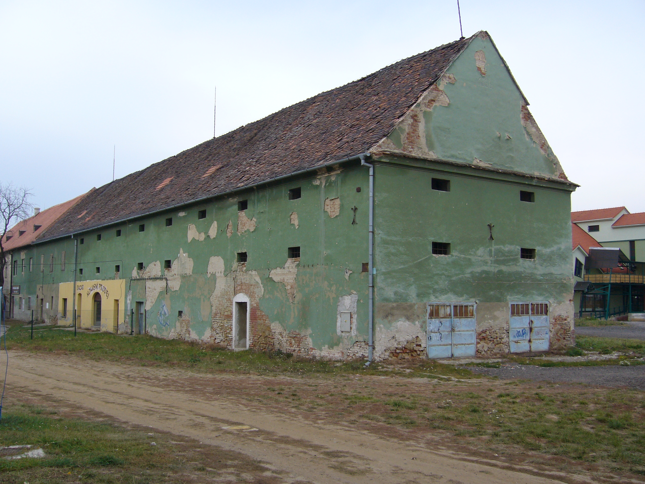 Manorial agricultural yard, rear wing, before reconstruction, Veselí nad Moravou, South Moravian region